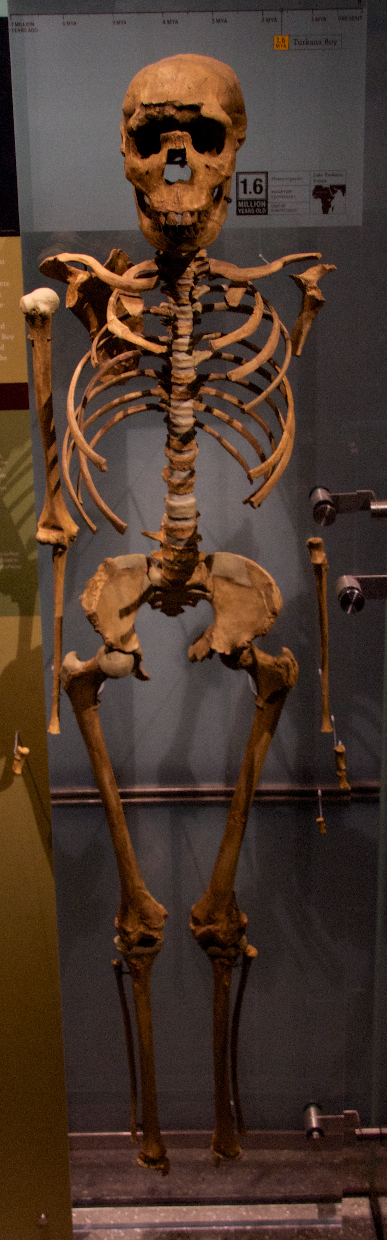 Turkana Boy. 1.6 million year old skeleton, found near Lake Turnkana, Kenya. At the American Museum of Natural History, New York.